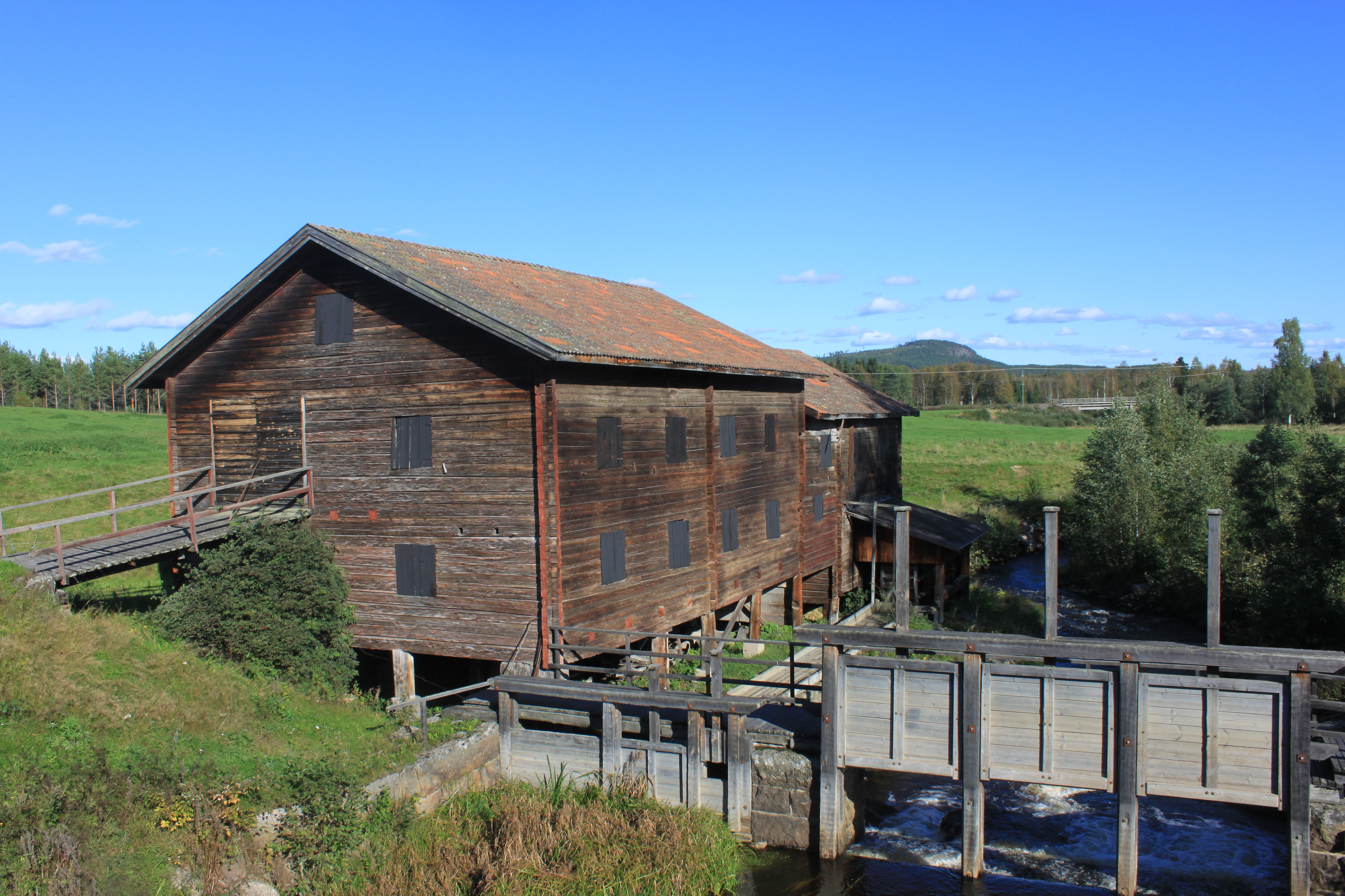 The farm Hians in Löräng, Ljusdal municipality, Sweden.